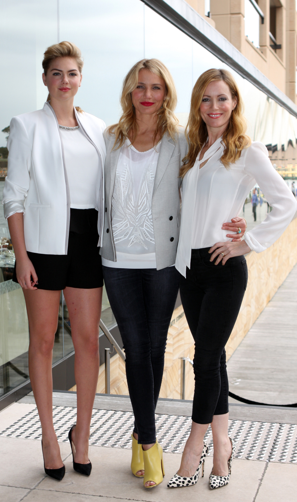 the Other Woman